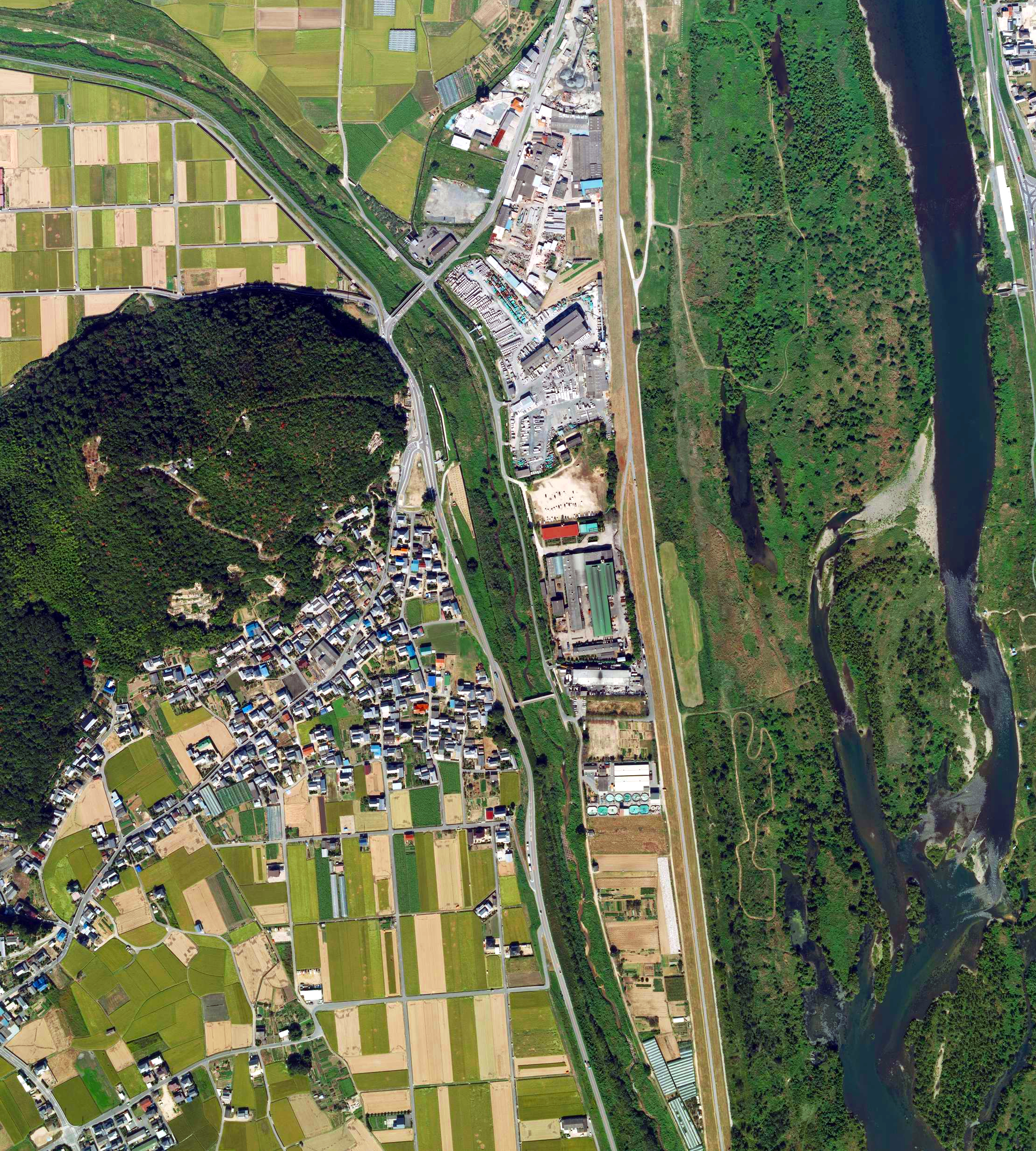 The Geographical Survey Institute took the aerial photograph in Sōja City, Okayama Prefecture on October 10, 2007.